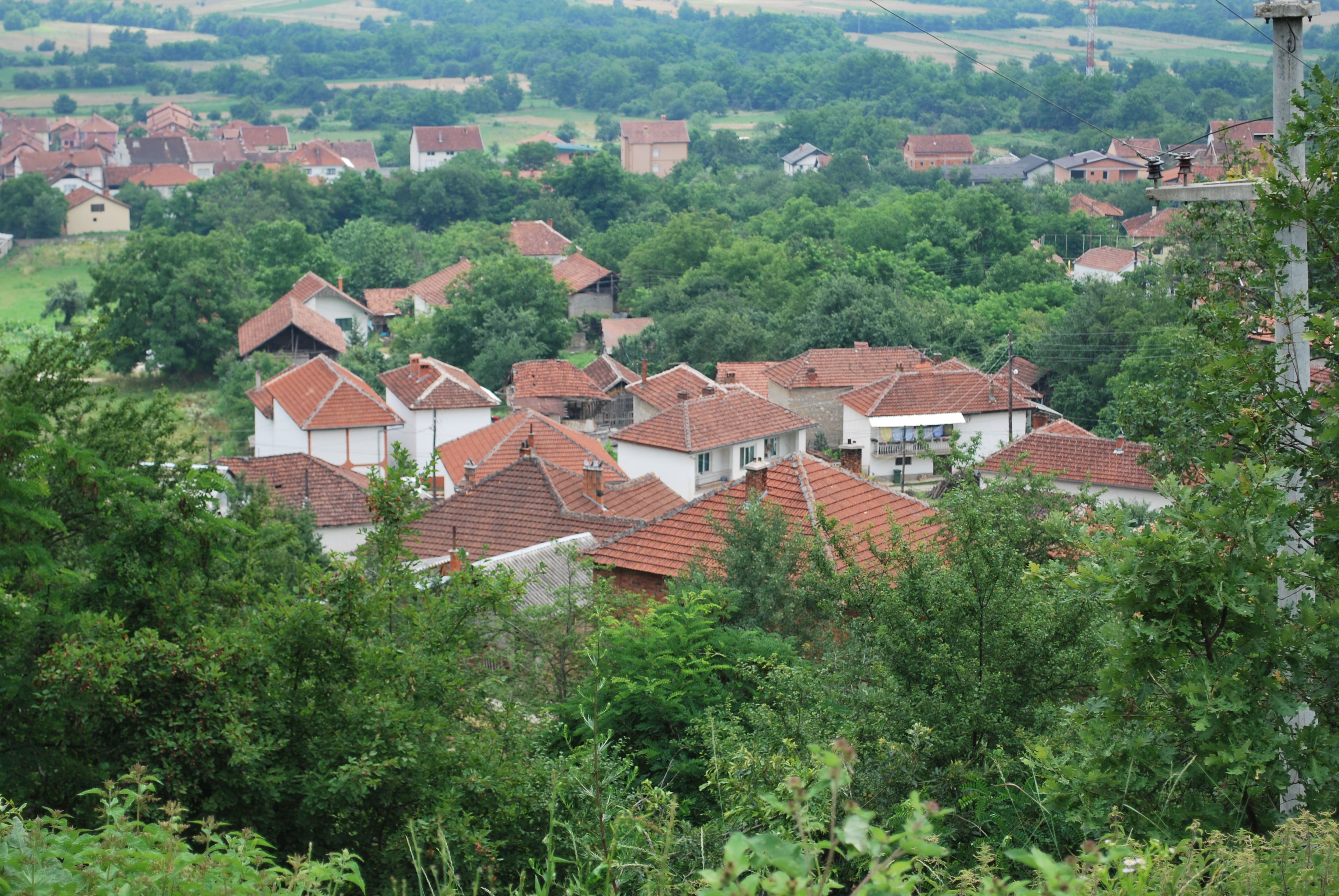 Zubovce, Macedonia